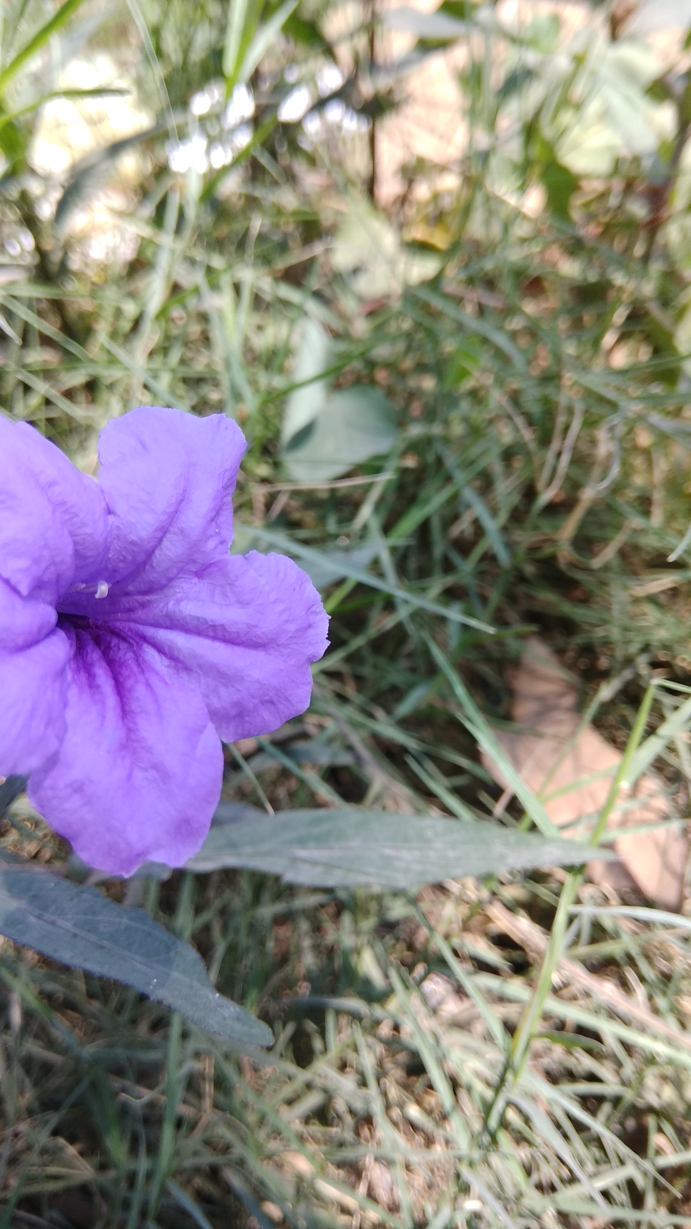 Ruellia